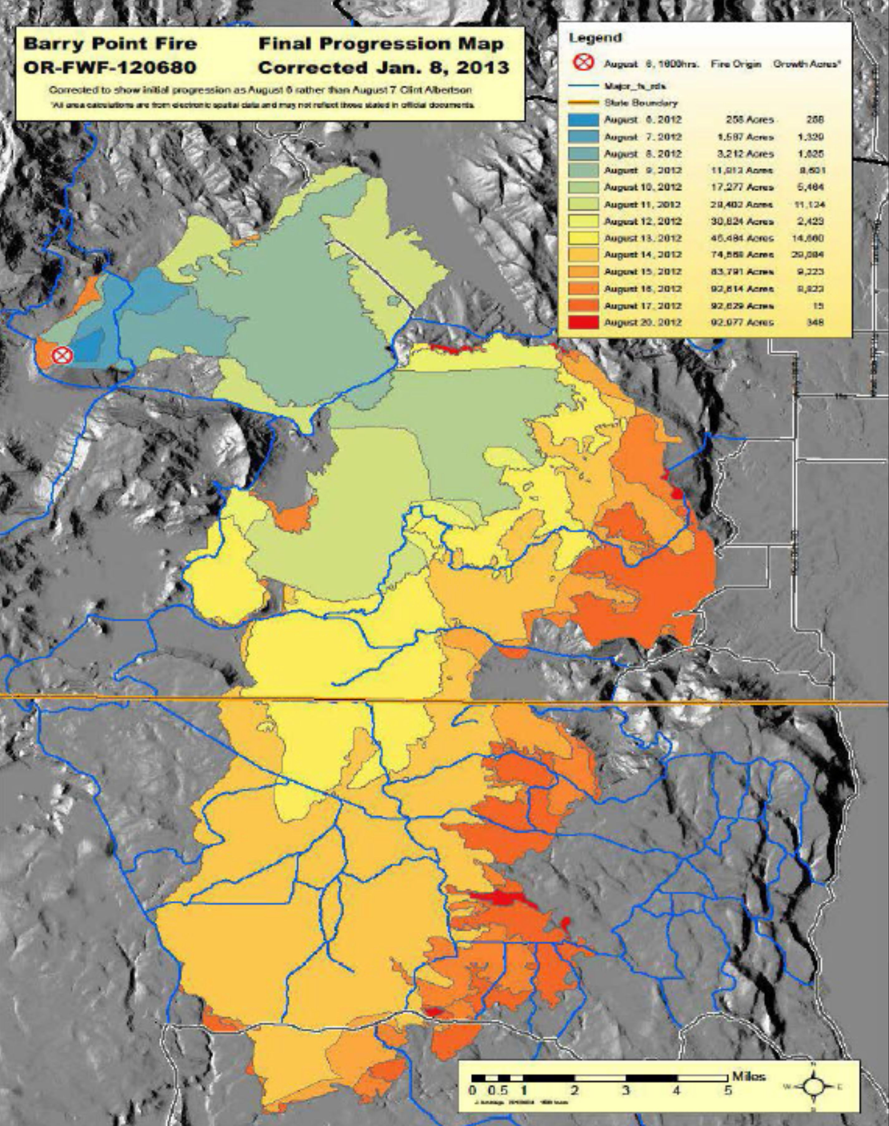 Fire progress map for the Barry Point Fire, a large wildfire that burned forest land in south central Oregon and northeastern California in 2012.